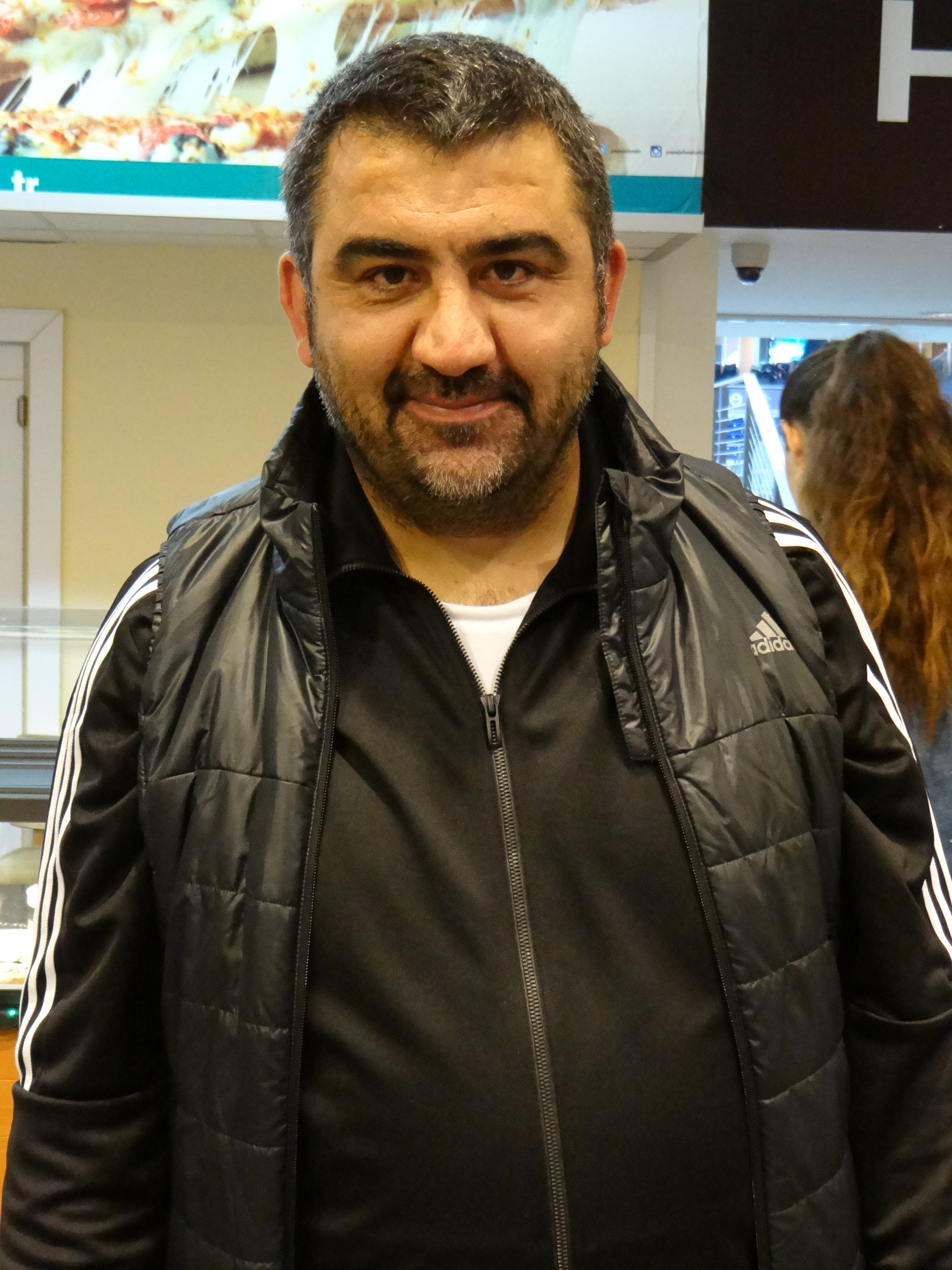 Ümit Özat Fenerbahçe Men's Basketball vs Sakarya Büyüksehir Belediyespor TSL 20180523